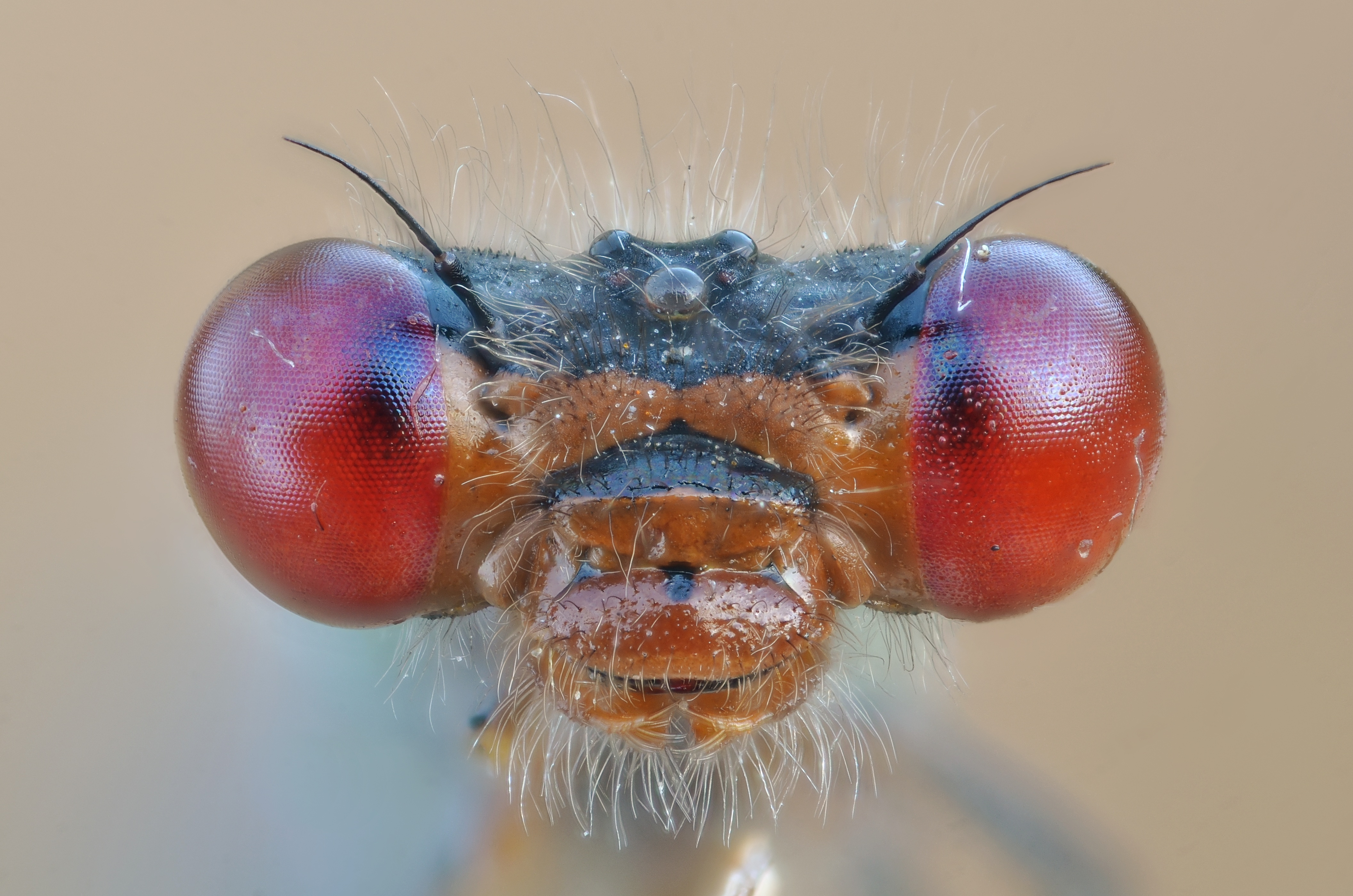 Erythromma viridulum male Focus stack of 52 images, Schneider Kreuznach Componon 28 mm f/4 at f/4, 100 ISO, 1s reversed on extension tubes, natural evening light + reflector on the left